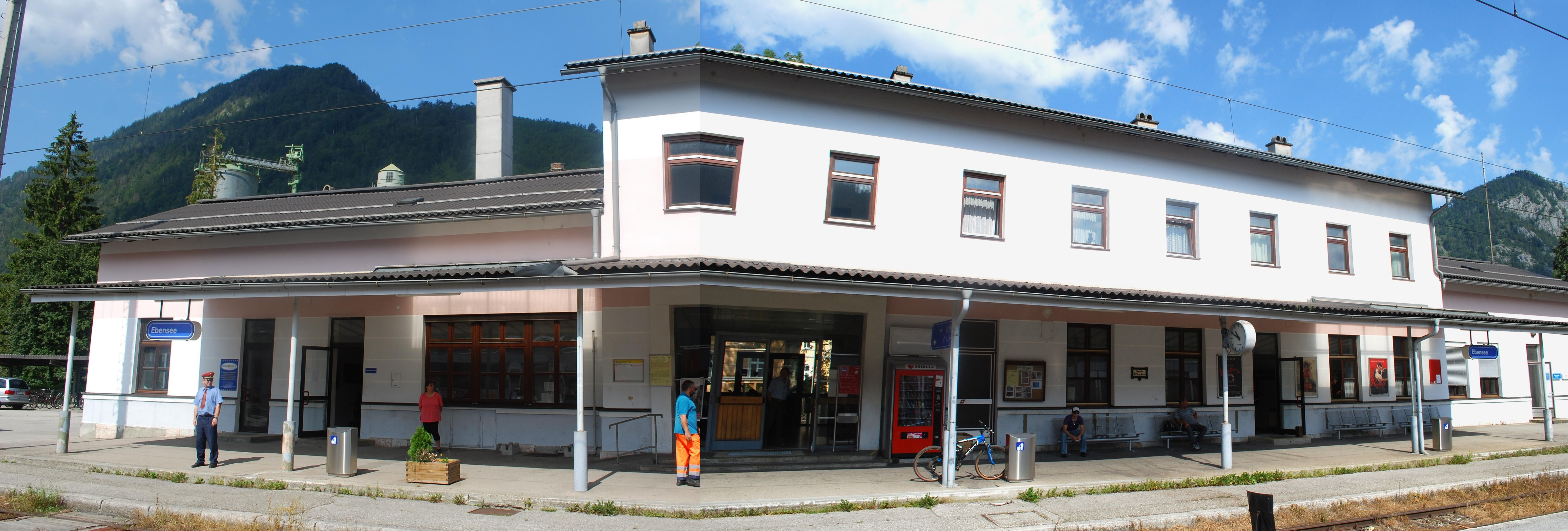 Panorama Train station Ebensee